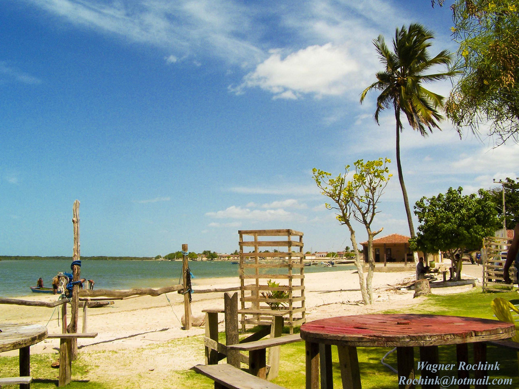 Diogo Lopes beach in Macau, Rio Grande do Norte, Brazil.